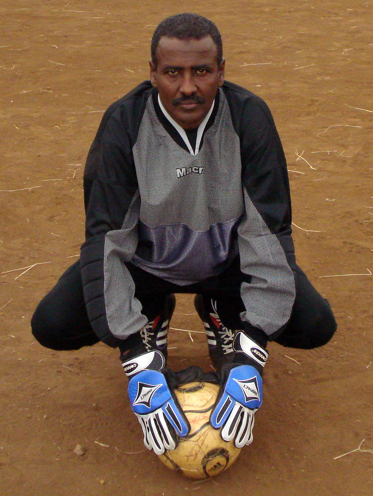 Picture of the famous goalkeeper Abdi Mohamed Ahmed, a Somali former footballer who played as a goalkeeper